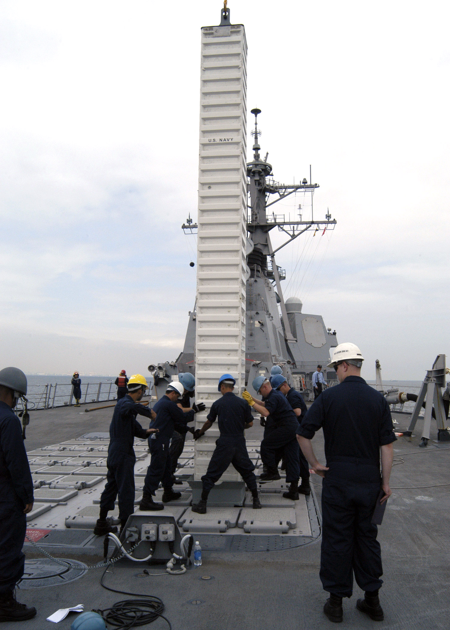 YOKOSUKA, Japan (Sept. 19, 2007) - Sailors aboard guided-missile destroyer USS Lassen (DDG 82) help guide a Tomahawk cruise missile into place during ammunition onload. Low winds and a calm sea state are two necessary elements for a safe onloading evolution. Lassen is forward deployed to Yokosuka, Japan, and is underway on deployment. U.S. Navy photo by Mass Communication Specialist 2nd Class Chantel M. Clayton (RELEASED)